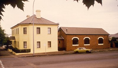 Union Bank of Australia building, Orange: Union Bank of Australia (former)